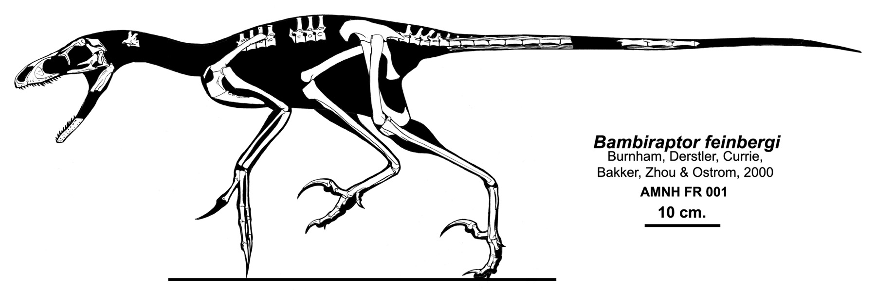 Skeletal reconstruction of Bambiraptor feinbergi.